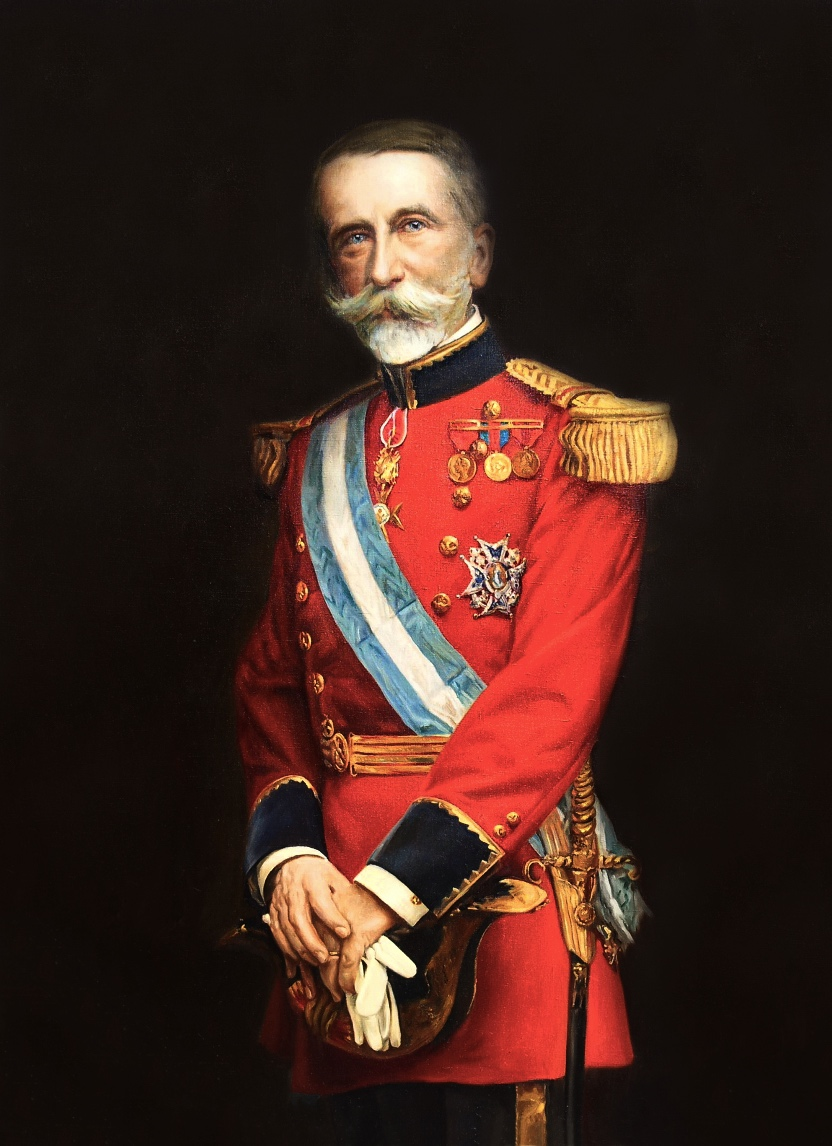 Portrait of the 2nd Marquess of Comillas, Claudio López Bru